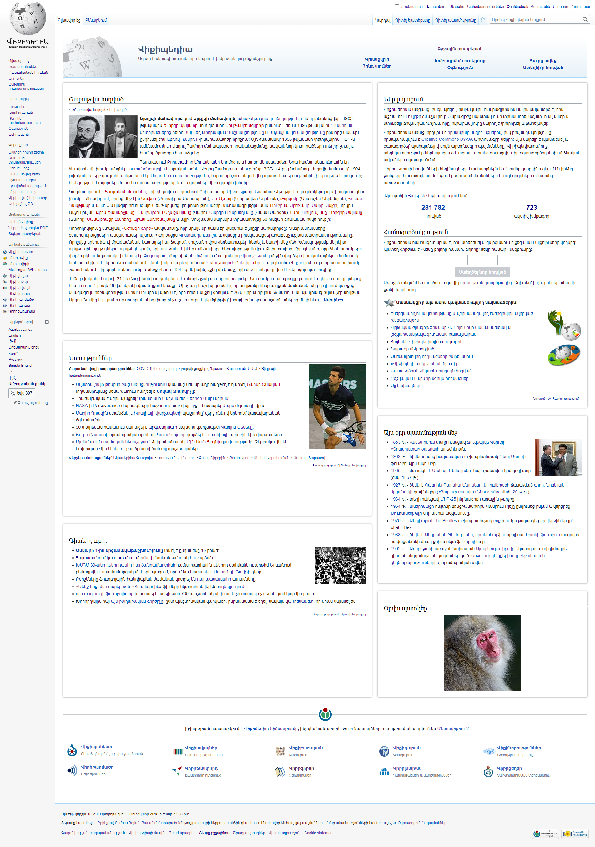 Main page of Armenian Wikipedia